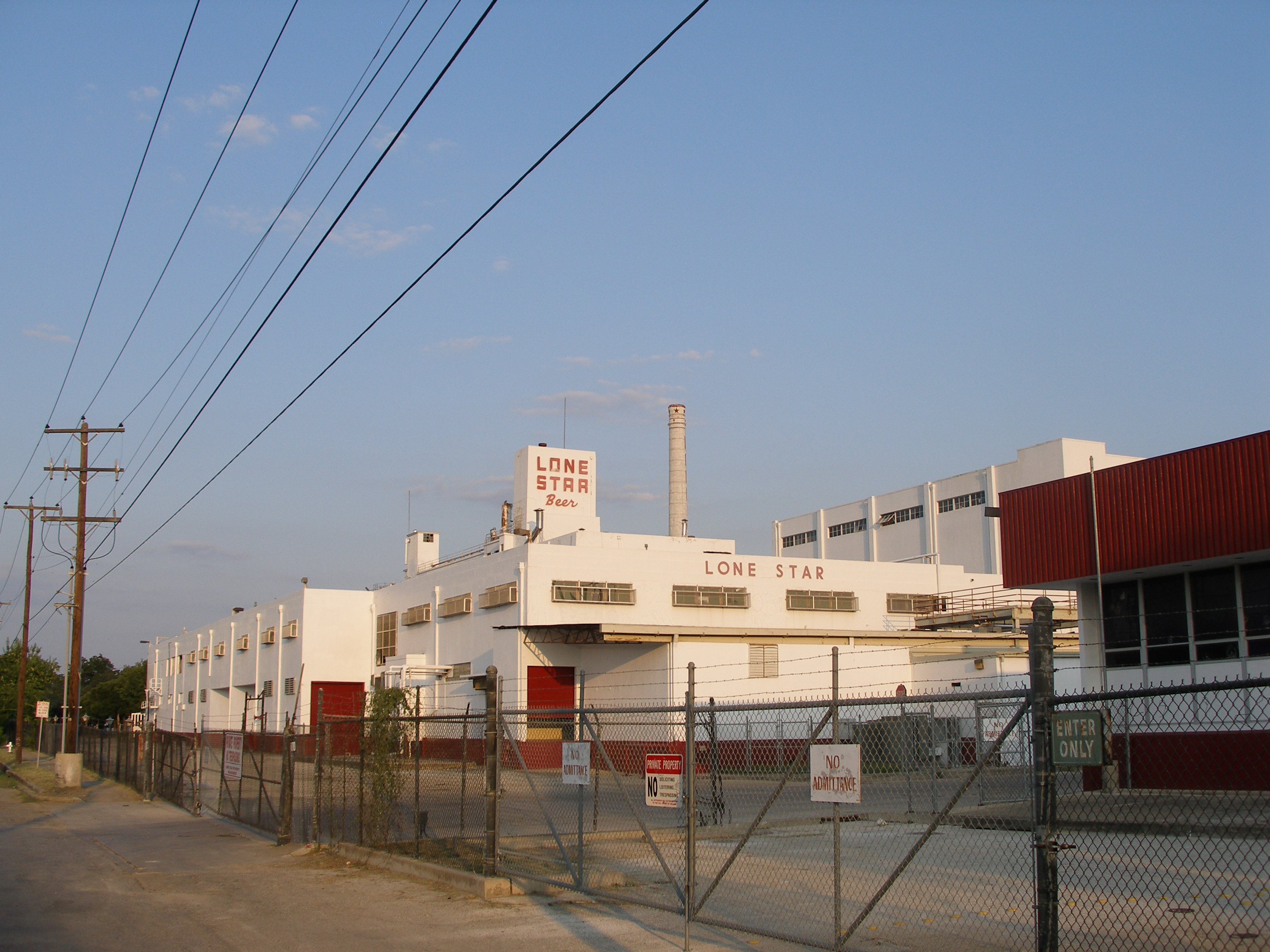 The second brewery used by Lone Star. Brewery is located at 600 Lone Star Boulevard in San Antonio, Texas. Picture taken 29 June 2006.